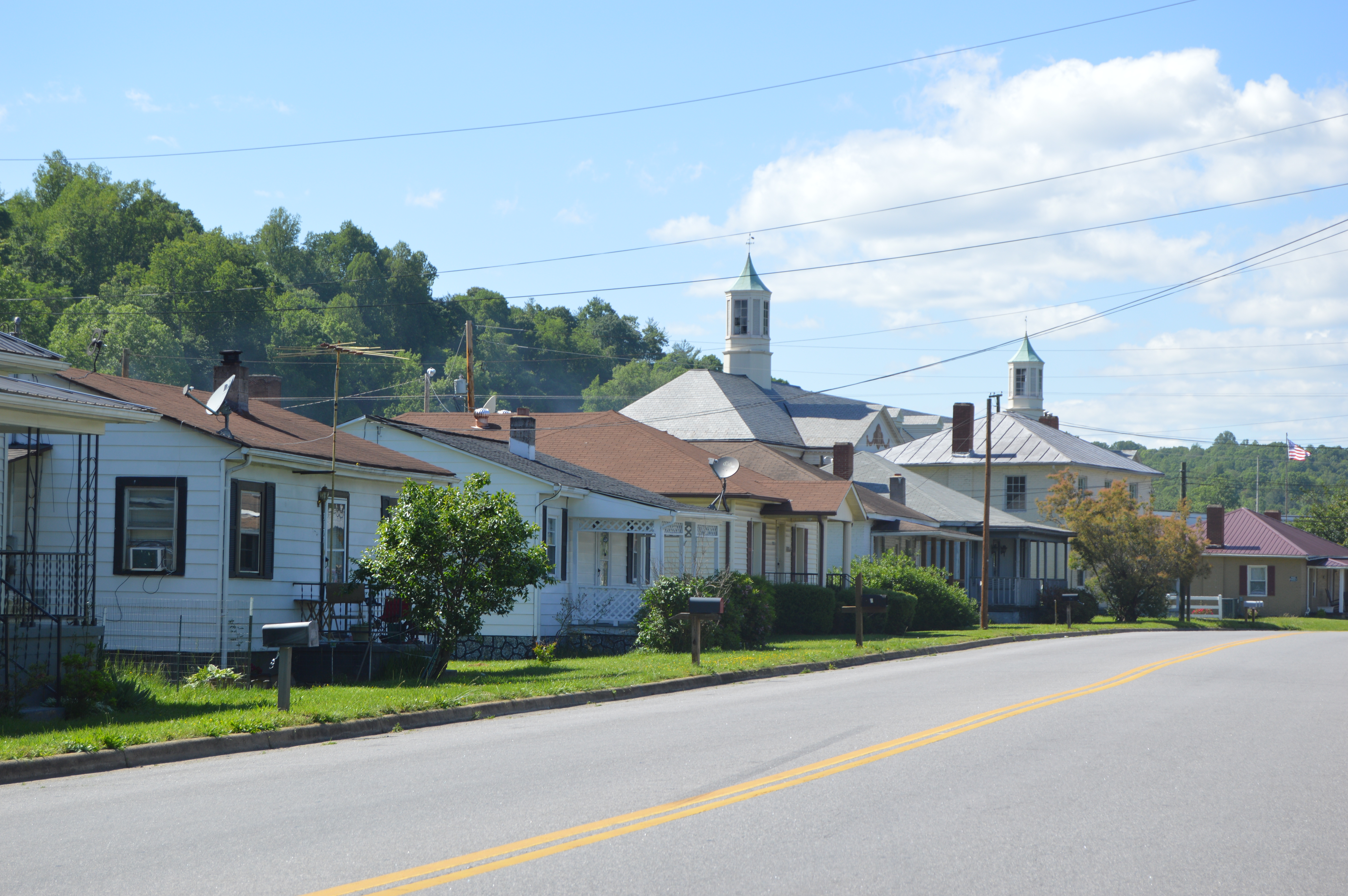 Houses on the western side of Fairystone Park Highway in Bassett, Virginia, United States. In the background sits John D. Bassett High School.